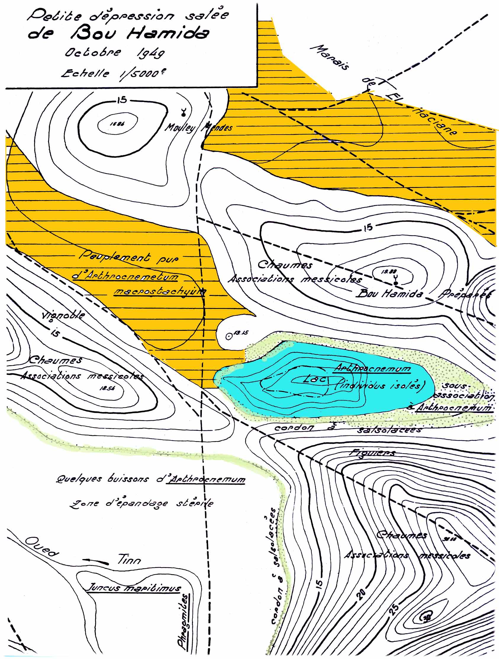 Schematic representation of the zonation of the vegetation on the lakesides of Bou Hamida (Oranie, Algeria; according to Simonneau, 1952).